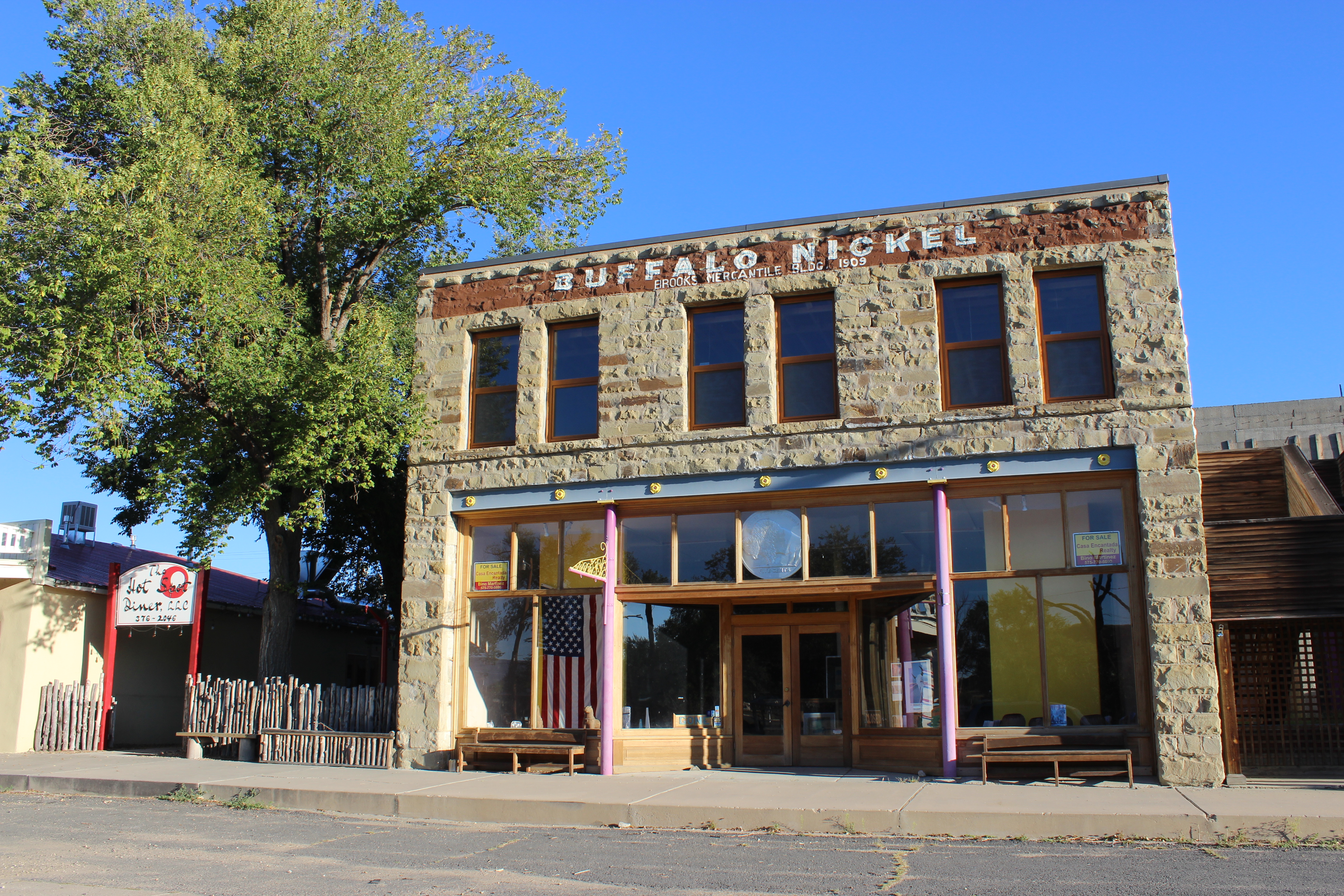 Brooks Mercantile Building, c. 1909. Downtown Cimarron, New Mexico.